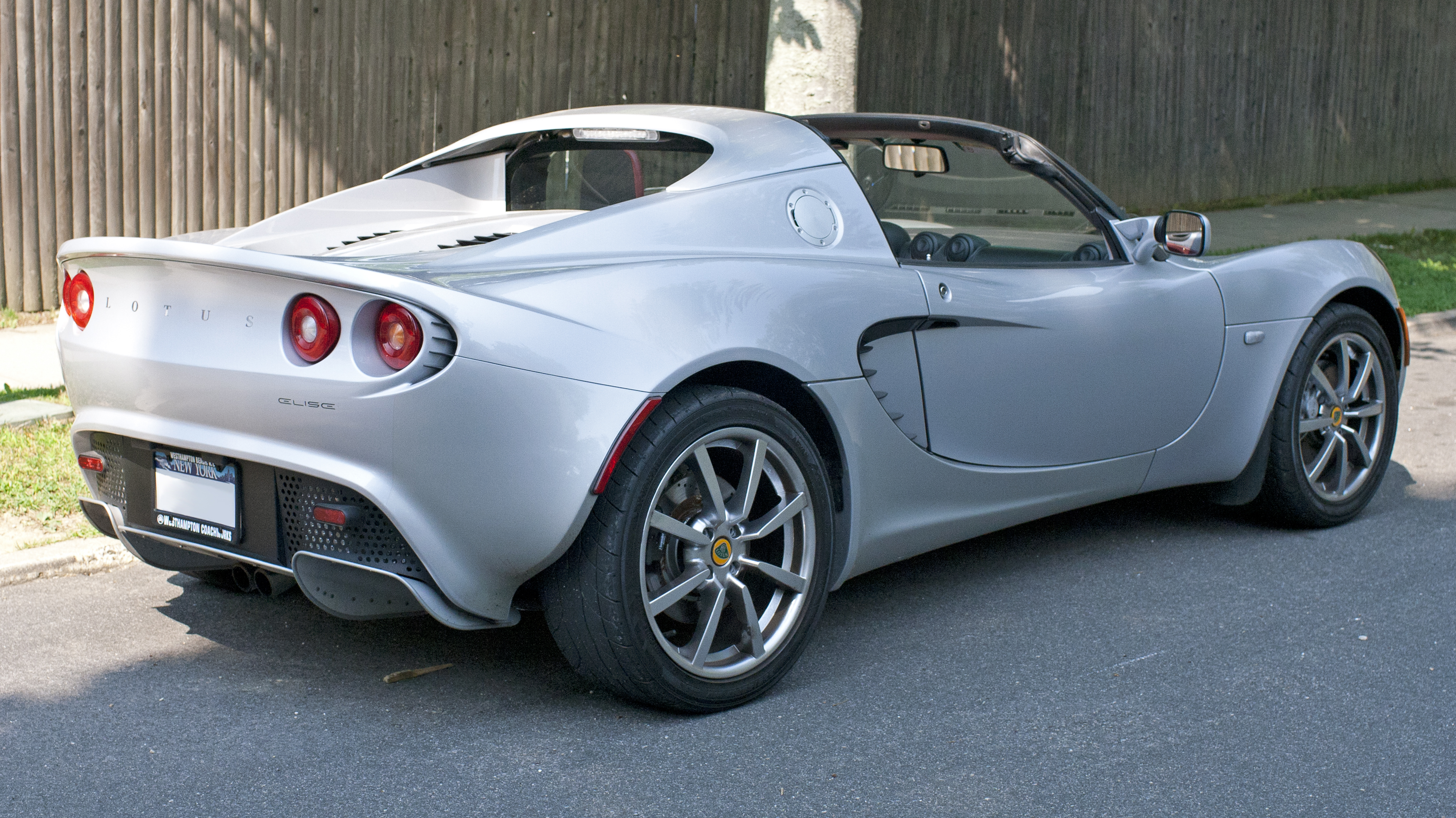 2005 Lotus Elise, the first year of federalized Elises.